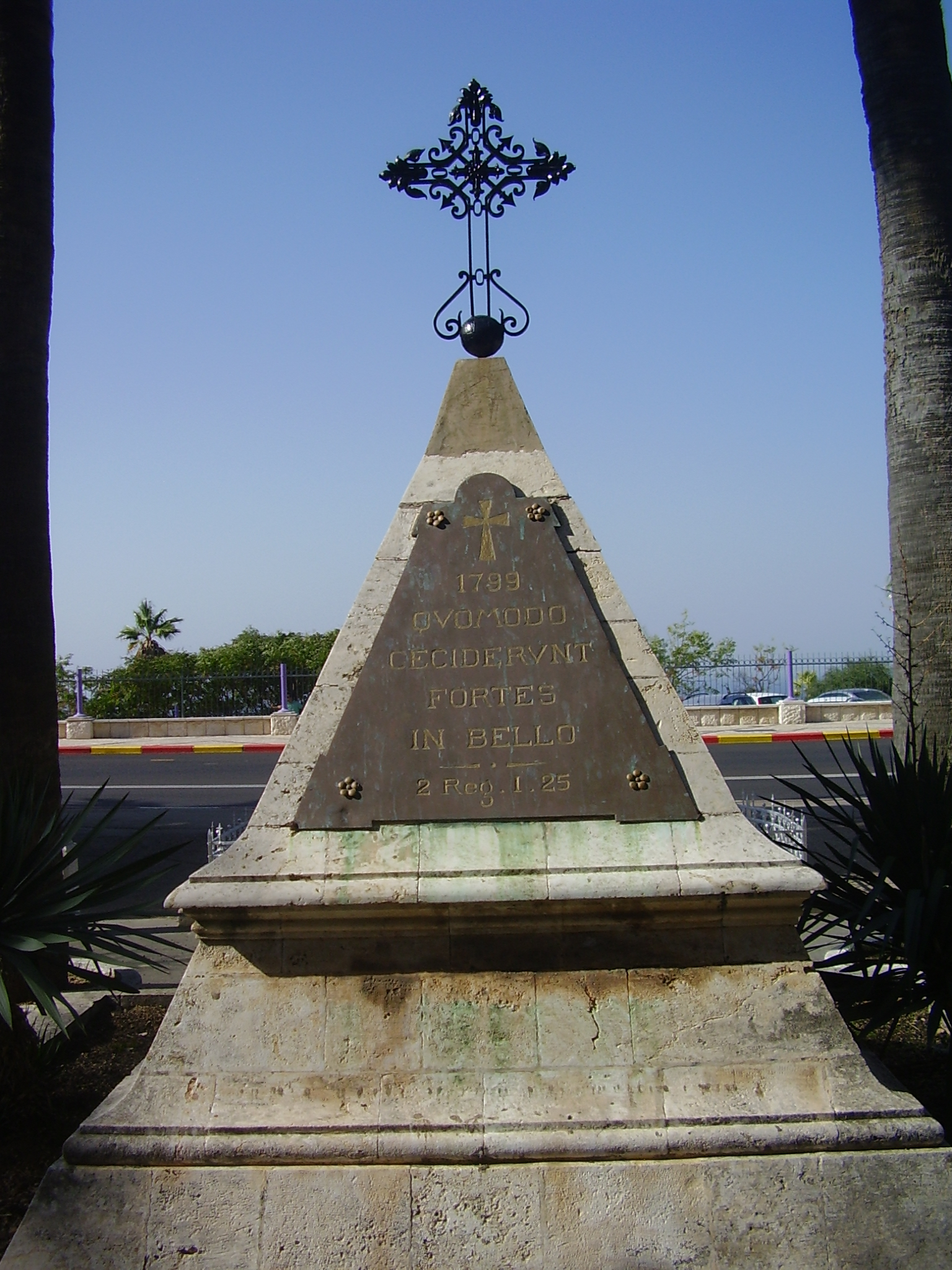 Tomb of Napoleon's soldiers in Haifa